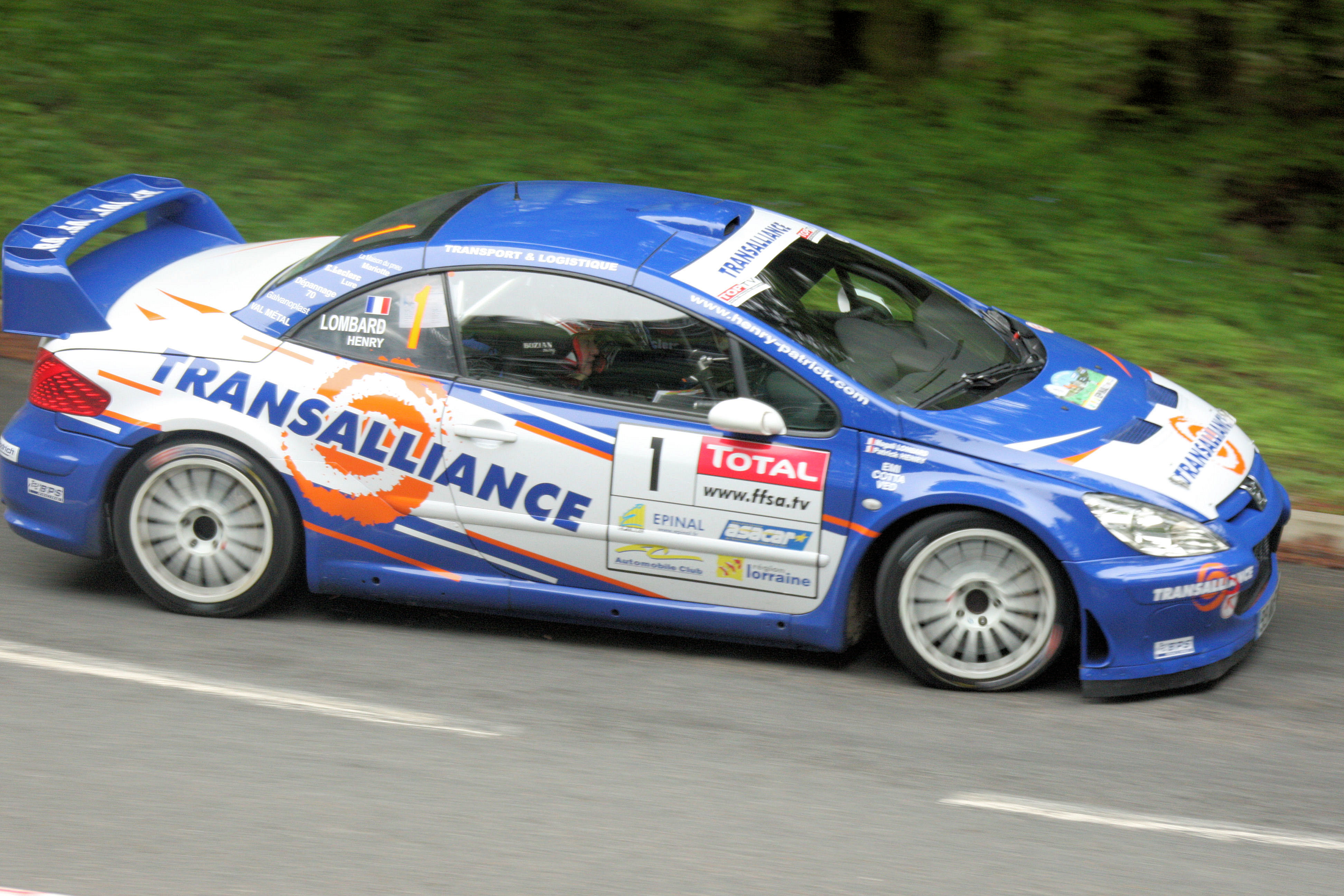 Patrick Henry driving a Peugeot 307 WRC at the 2008 Rallye Alsace Vosges.